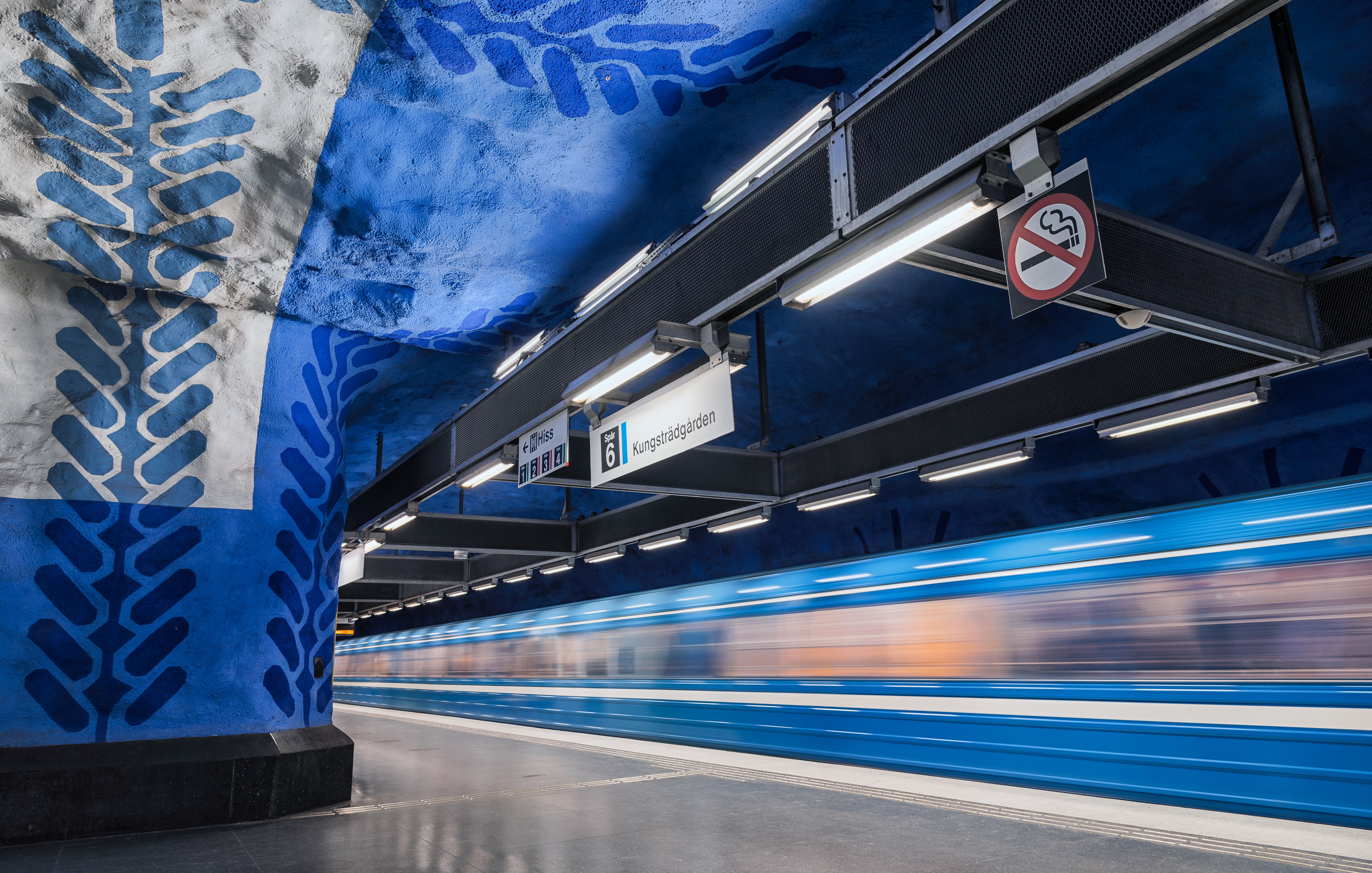 T-Centralen, Stockholms central underground metro station.